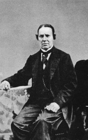 Swedish theatre actor Carl Gustaf Happe (1803-1871)